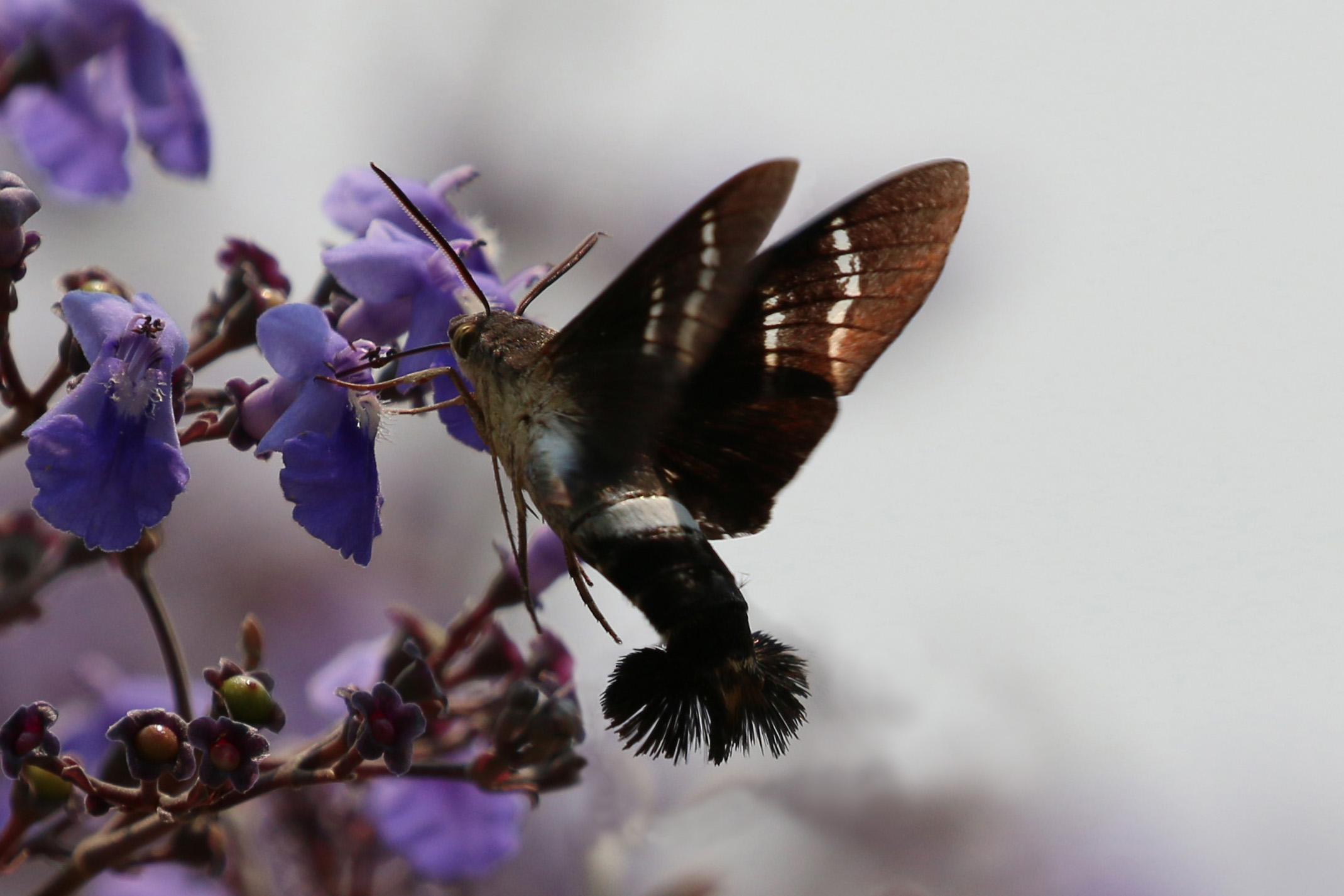 Titan sphinx (Aellopos titan titan), the Pantanal, Brazil